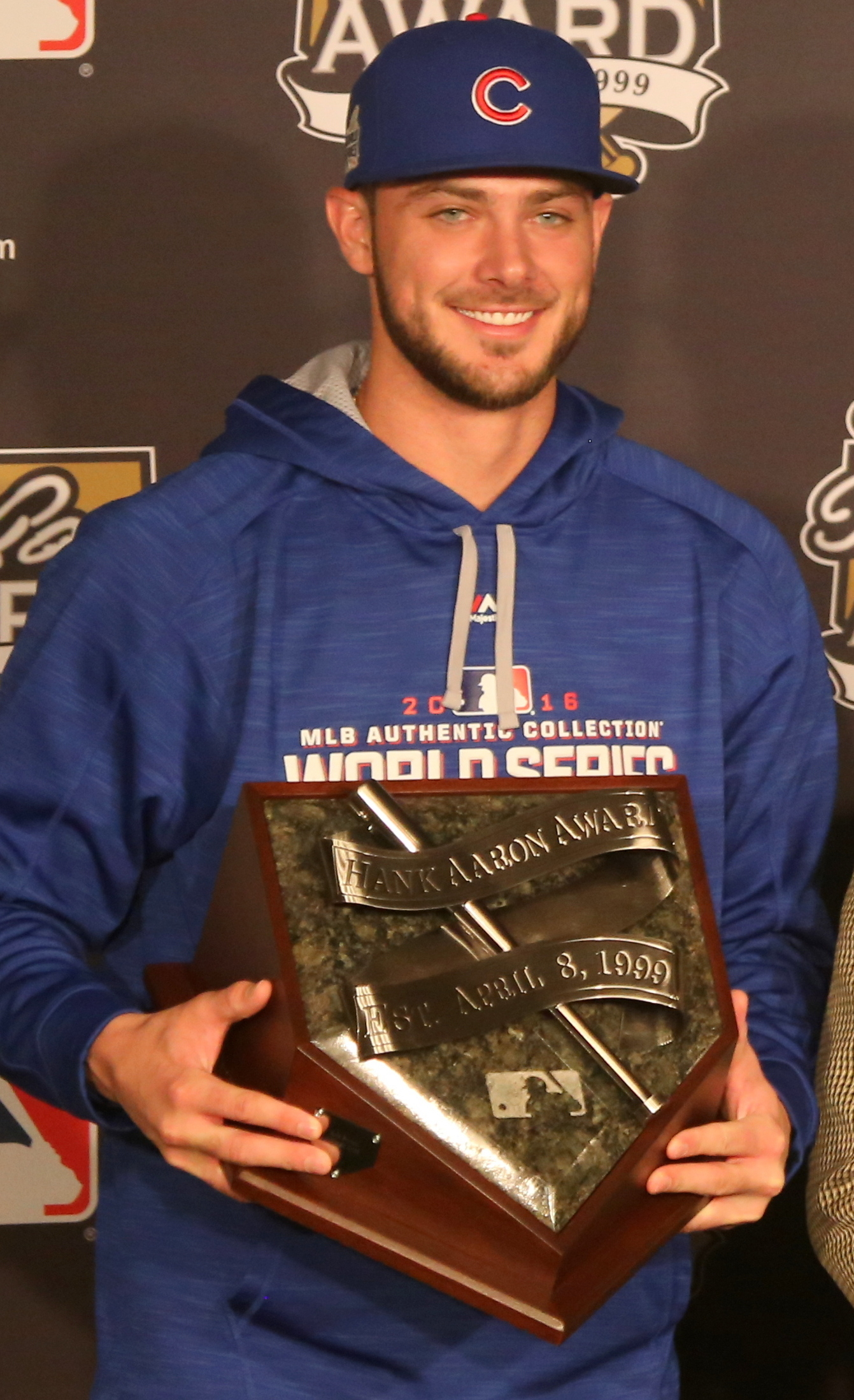 From left to right: Kris Bryant, Hank Aaron, Rob Manfred and David Ortiz in Cleveland on October 26, 2016. Bryant and Ortiz received the Hank Aaron Award for 2016.